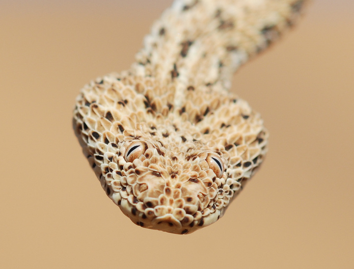 Namibian Sidewinder, Bitis peringueyi. With it eyes located on top of its head, the namibian sand viper/sidewinder is adapted for ambush predation partly buried in the sand. Swakopmund, Namibia